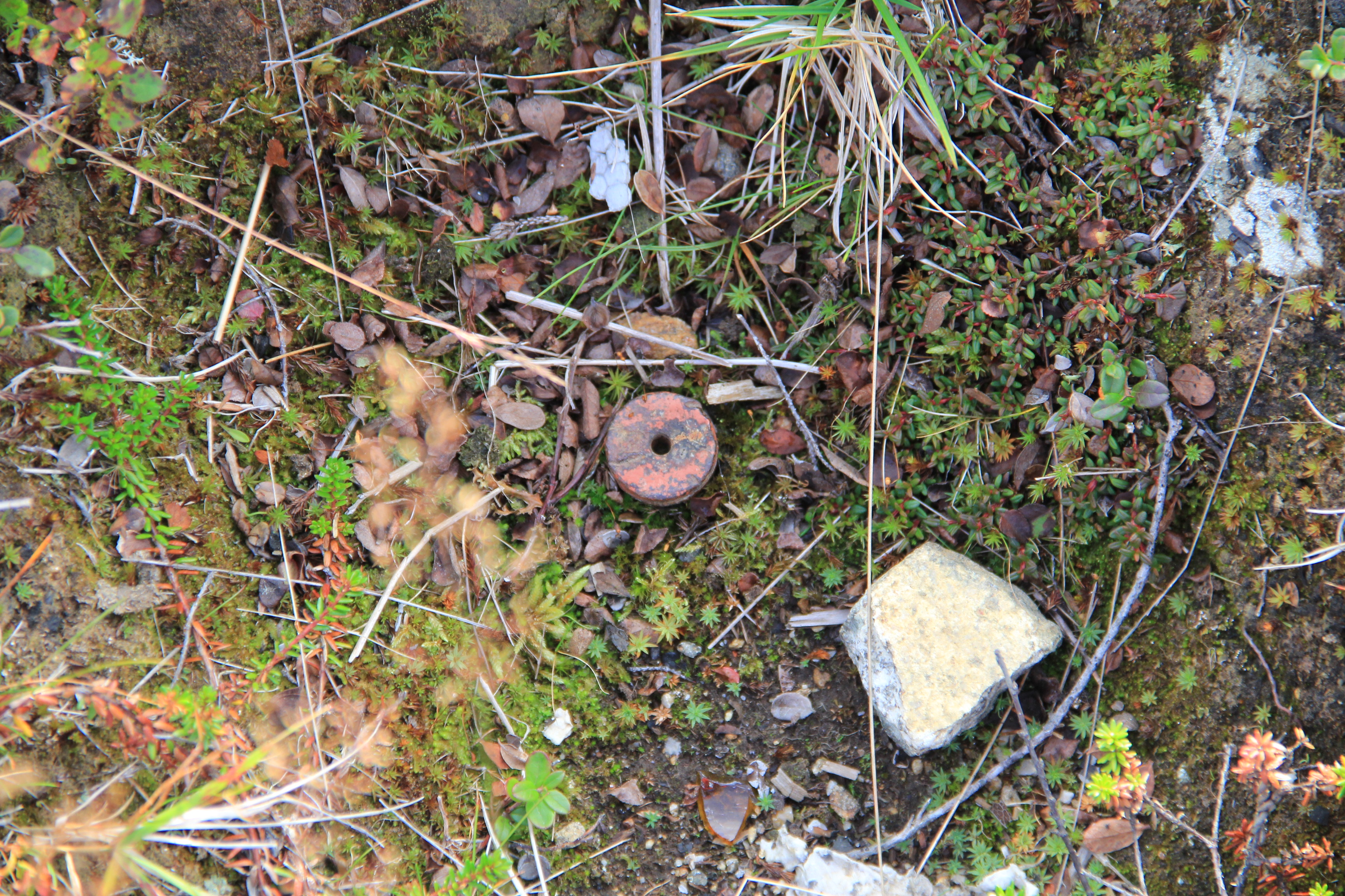 Kaunispää trig point G 275, Kaunispää, Inari, Finland.